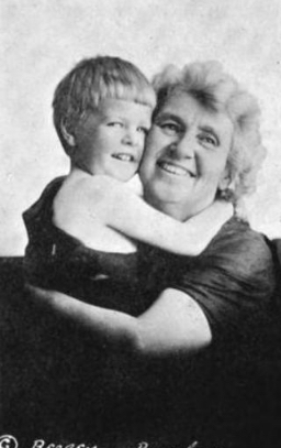 Photograph of Elizabeth Pratt Grinnell. An older white woman, smiling, embracing a child with blond hair. They are both wearing dark clothing. The boy's visible arm and shoulder are bare.